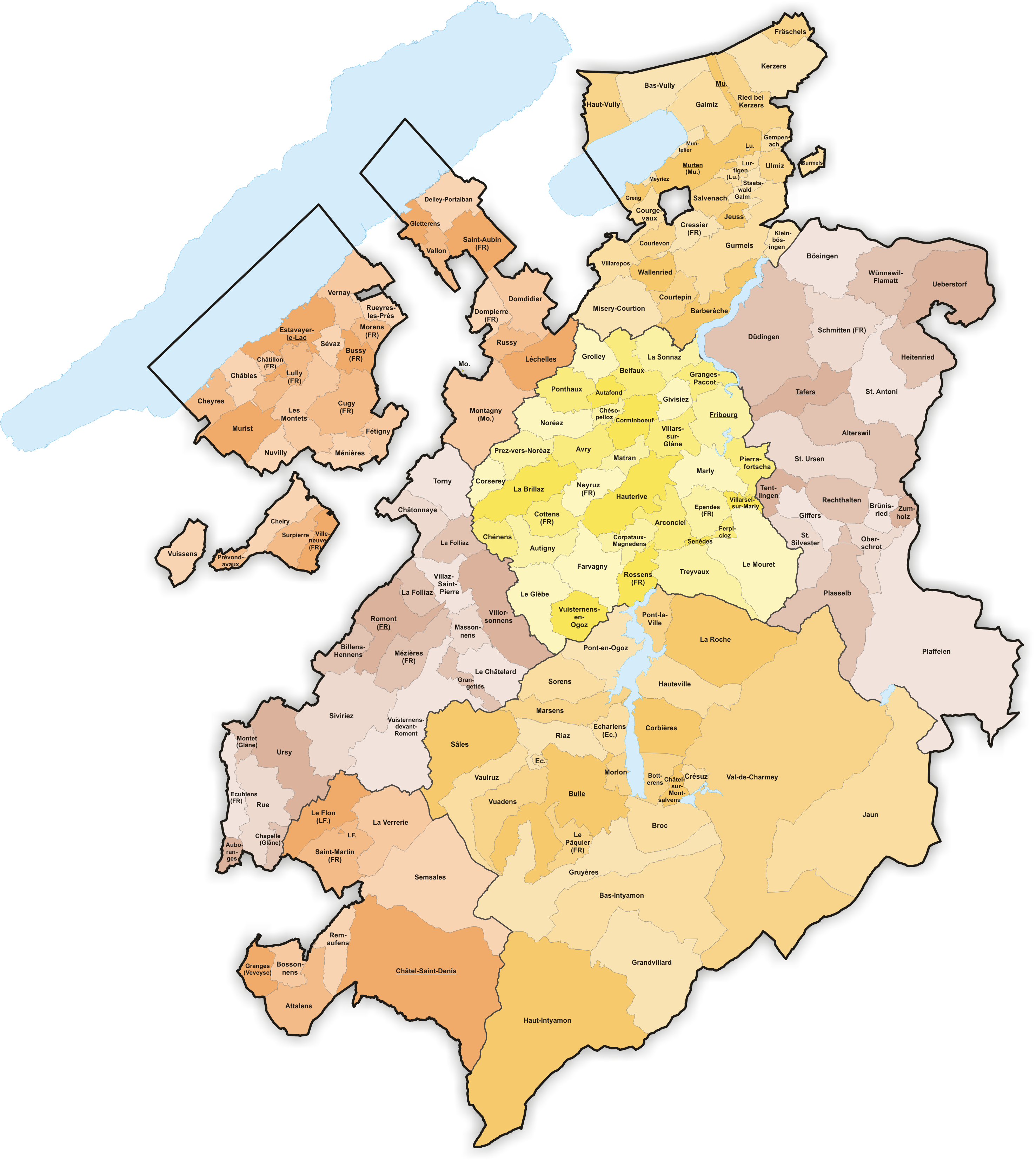 Municipalities in Canton Freiburg